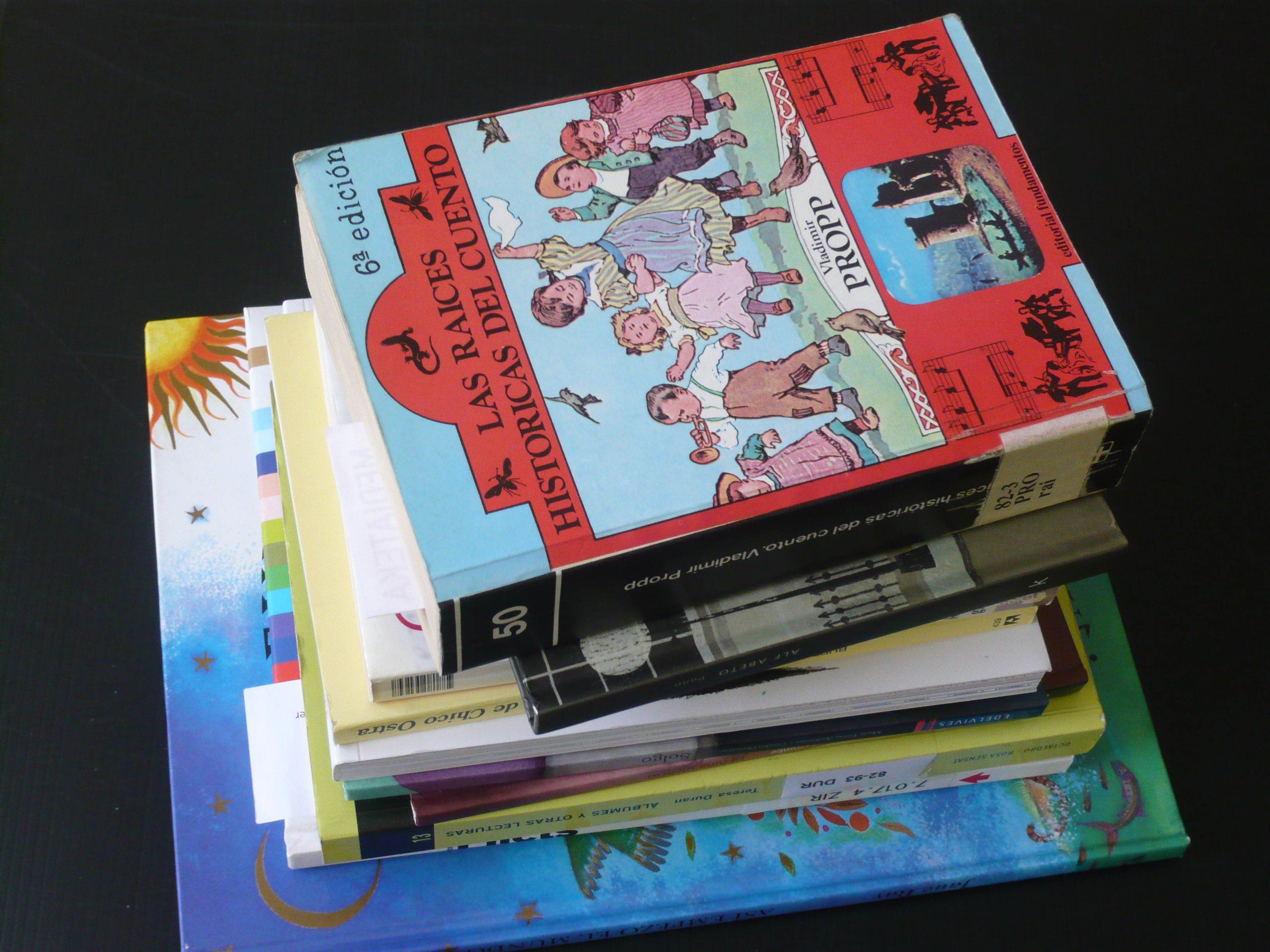 Las raíces históricas del cuento de V. Propp y otros cuentos